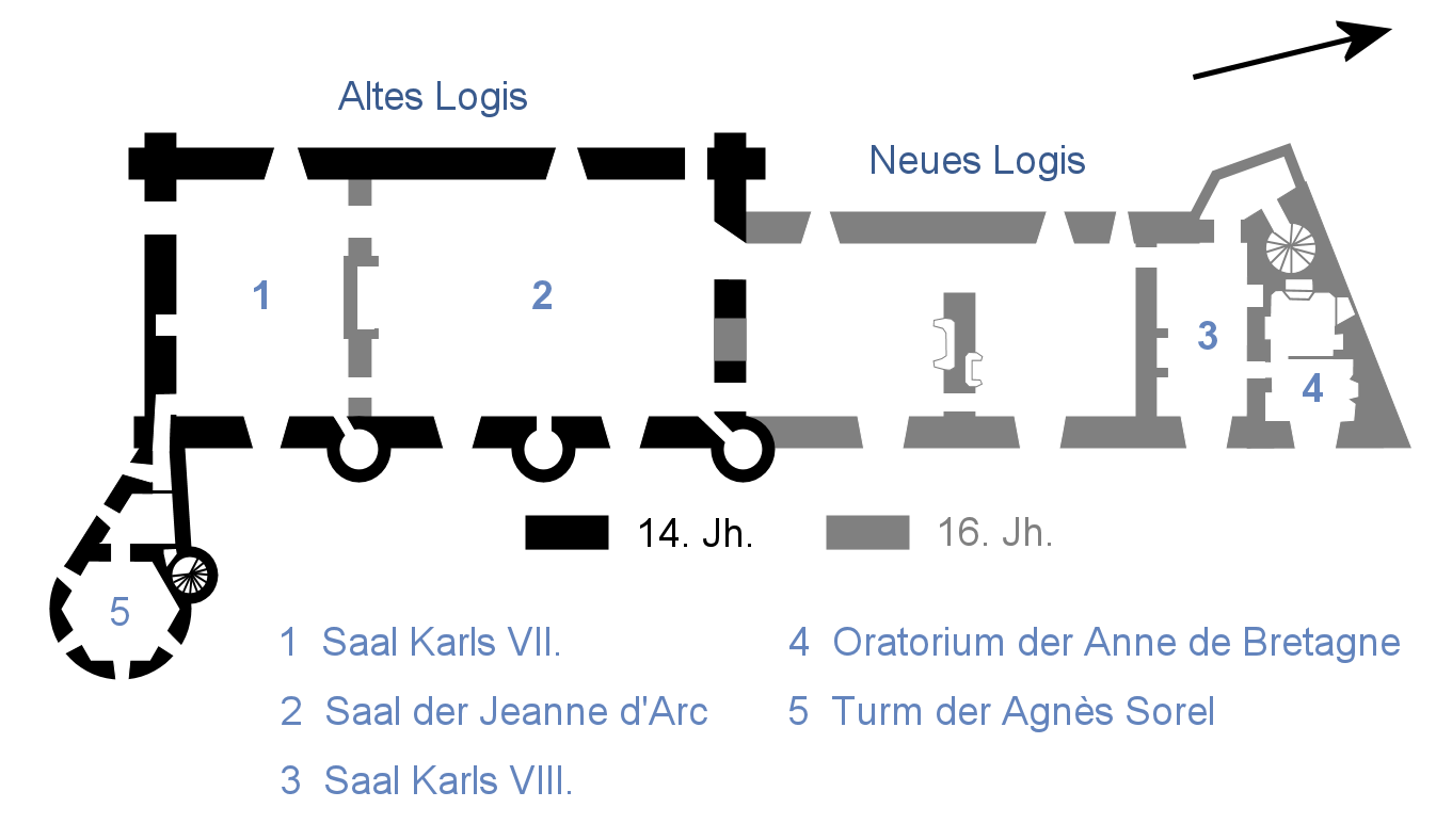 Logis Royale of the château de Loches - floor plan.